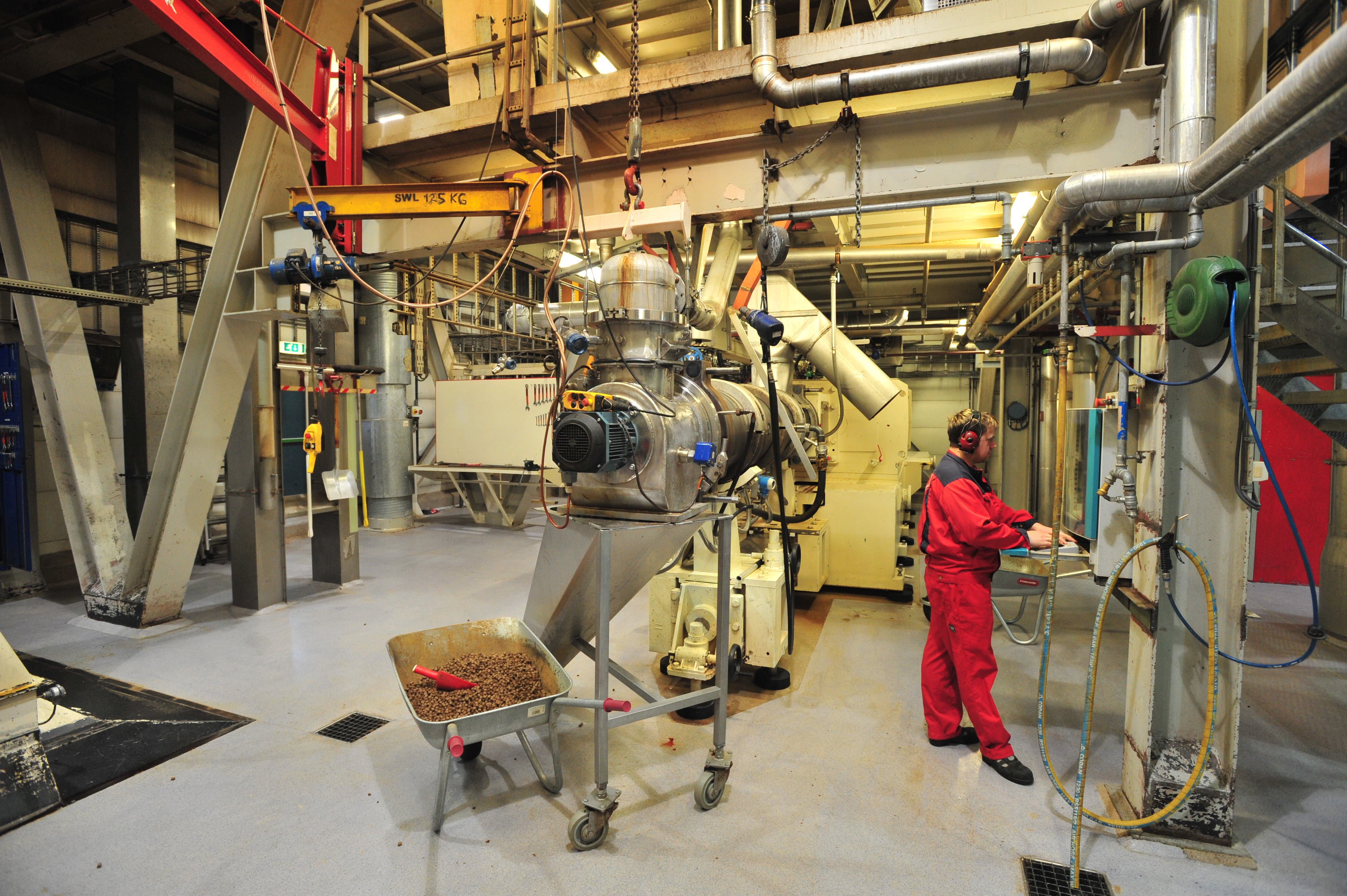 Salmon feed production in a factory in Stokmarknes, Norway